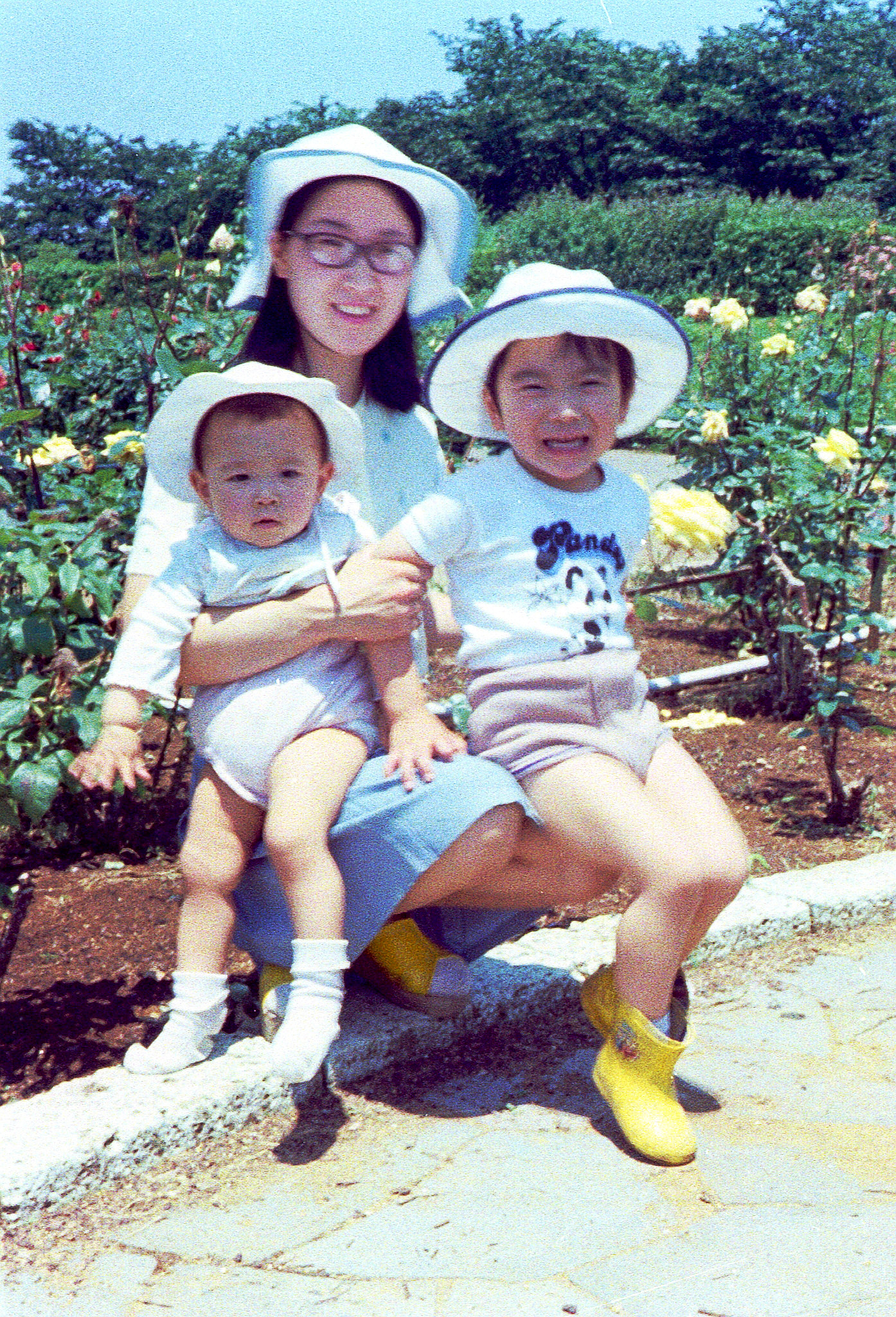 Japanese mother with children (Jindaiji temple) May 1974, Chofu, Tokyo.